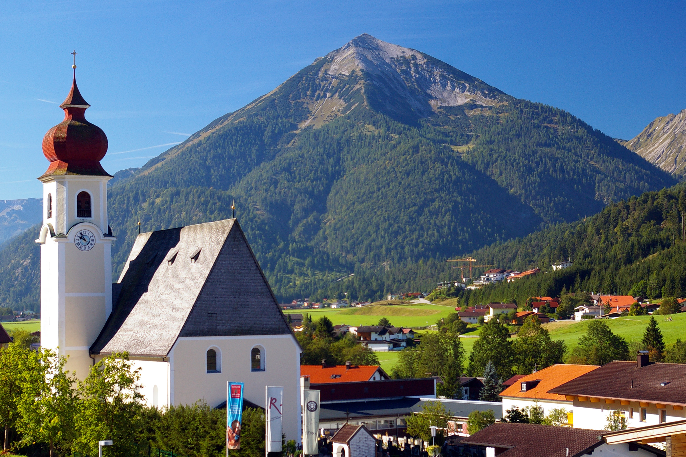 Seekarspitze from Achenkirch/Tirol/Austria